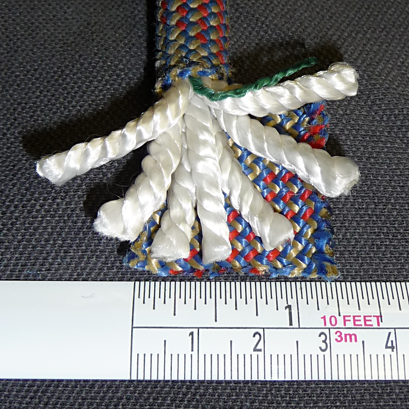 Internal structure of 10.7mm dynamic kernmantle climbing rope. This nylon rope is composed of a 40 strand "two-over-two" braided sheath and a core made from seven 3-ply yarns with a single green tracer strand running parallel to the core yarns. Note that four of the seven core yarns are S-twist (left-handed) and three are Z-twist (right-handed). Sample from trimmed end of a used climbing rope.